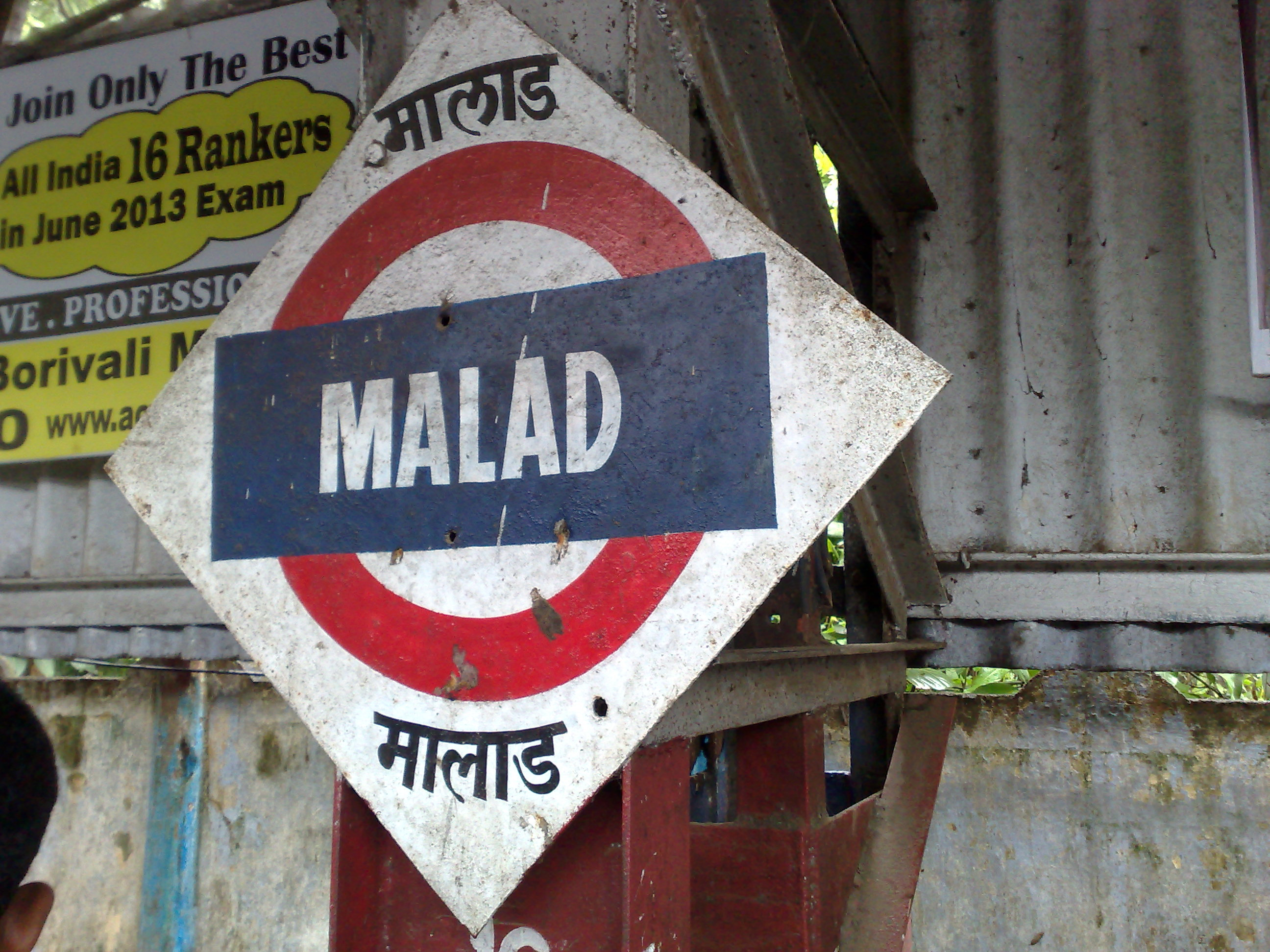 Malad stationboard - English